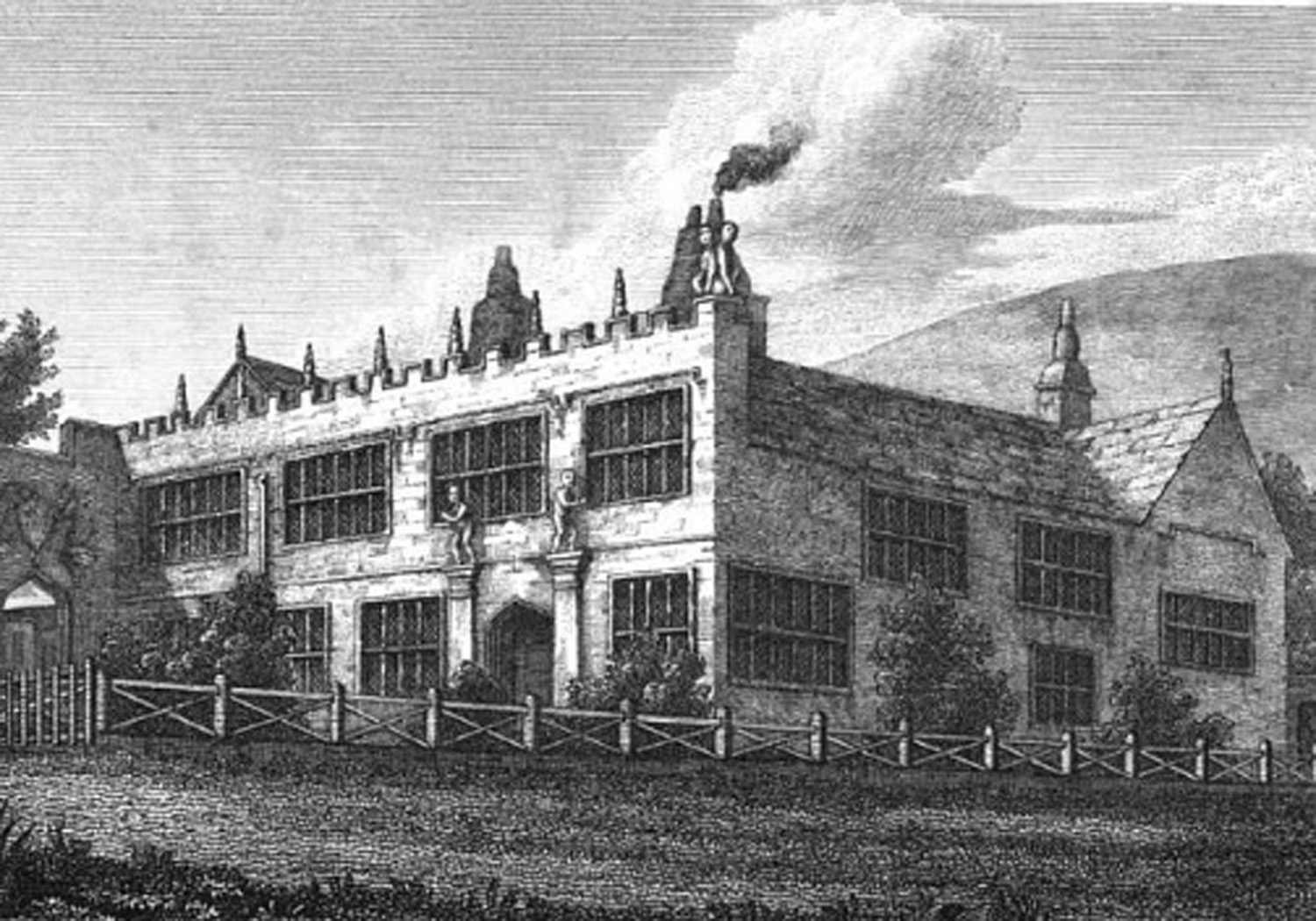 Drawing of High Sunderland Hall, Halifax in 1818